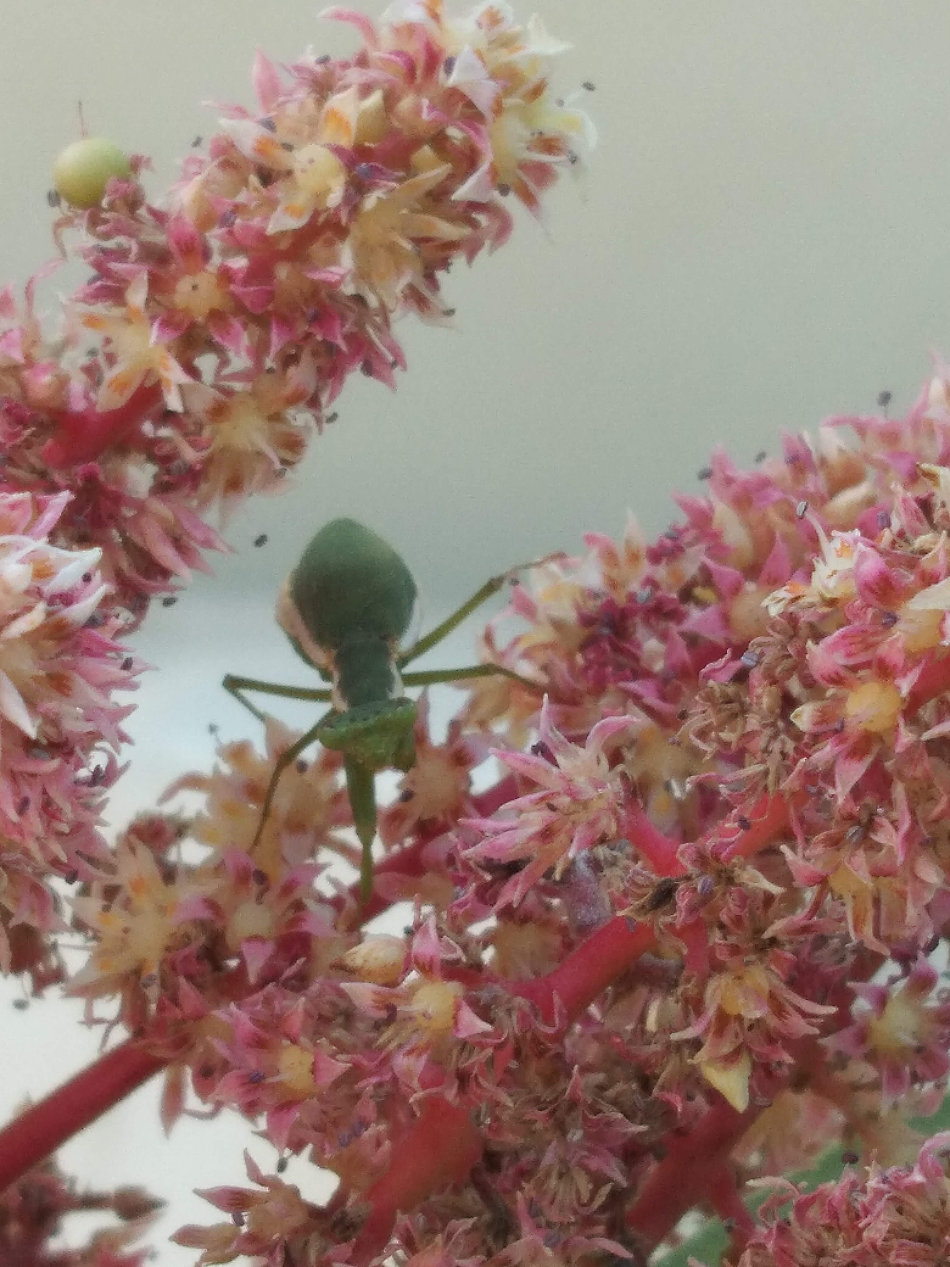 this is a green colored praying mantis with a white border around its abdomen patiently waiting for prey to arrive on the mango bloom.